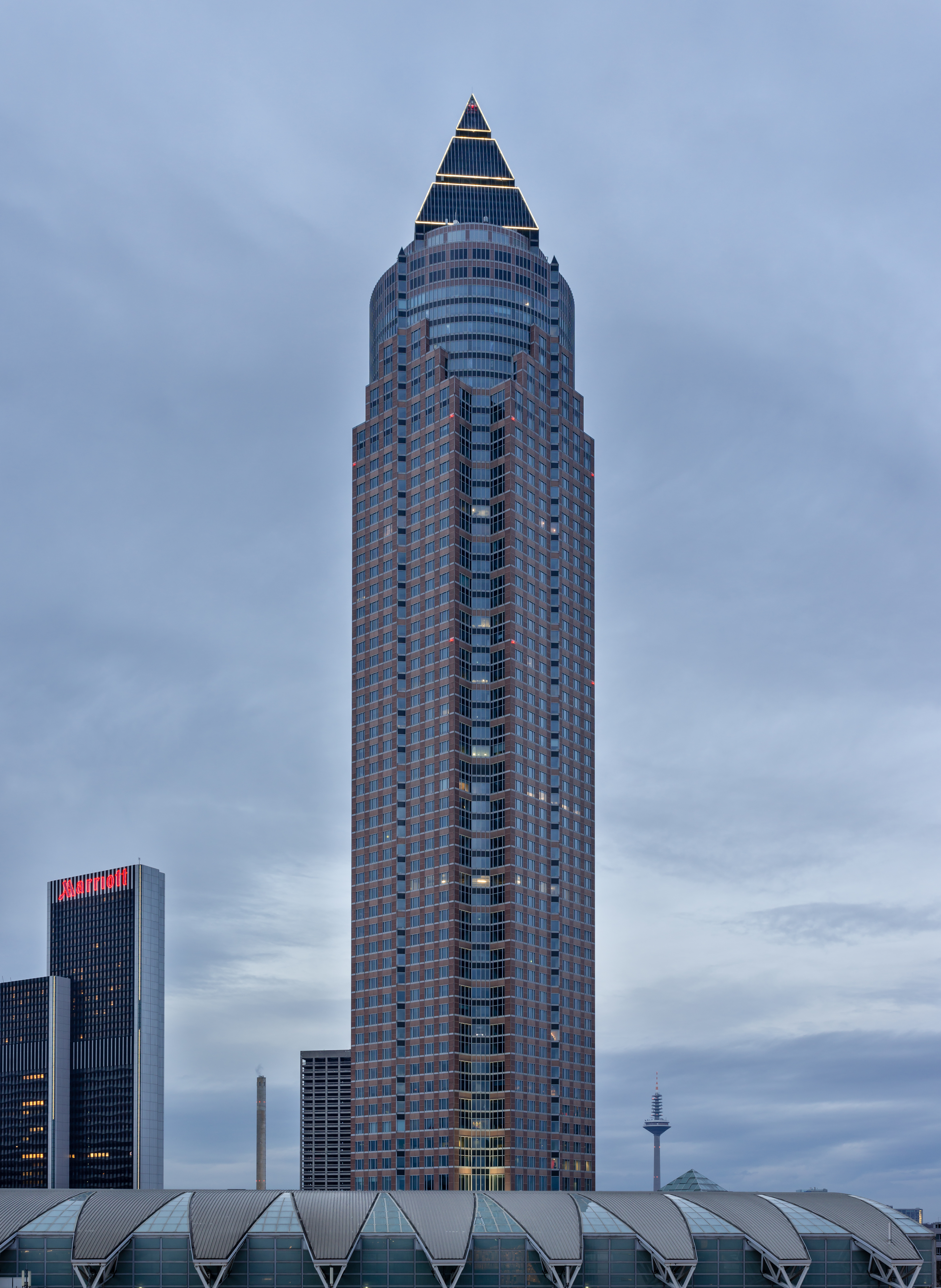 Fair Trade Tower, Frankfurt, Hesse, Germany.